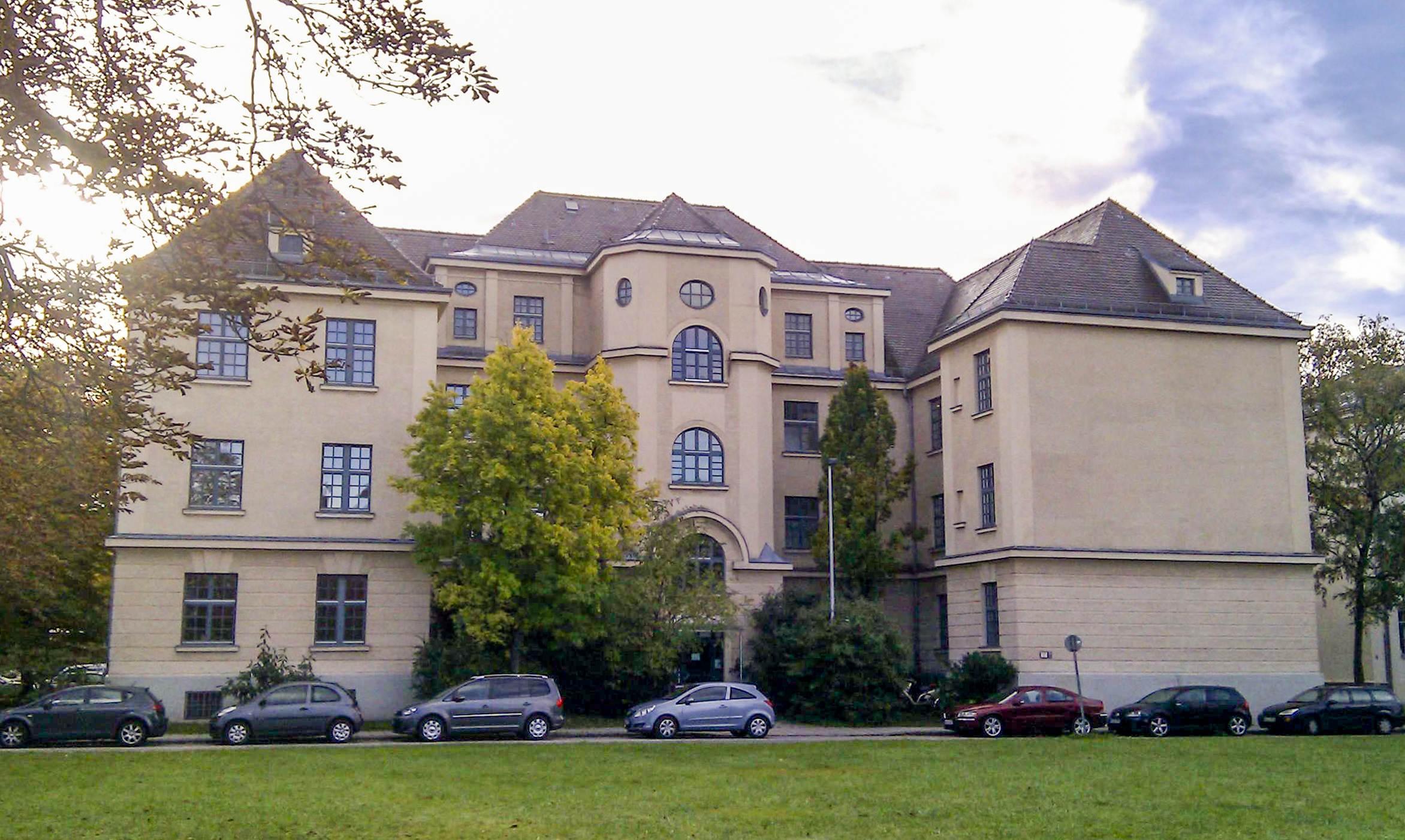 Military Court South of the Bundeswehr in Munich